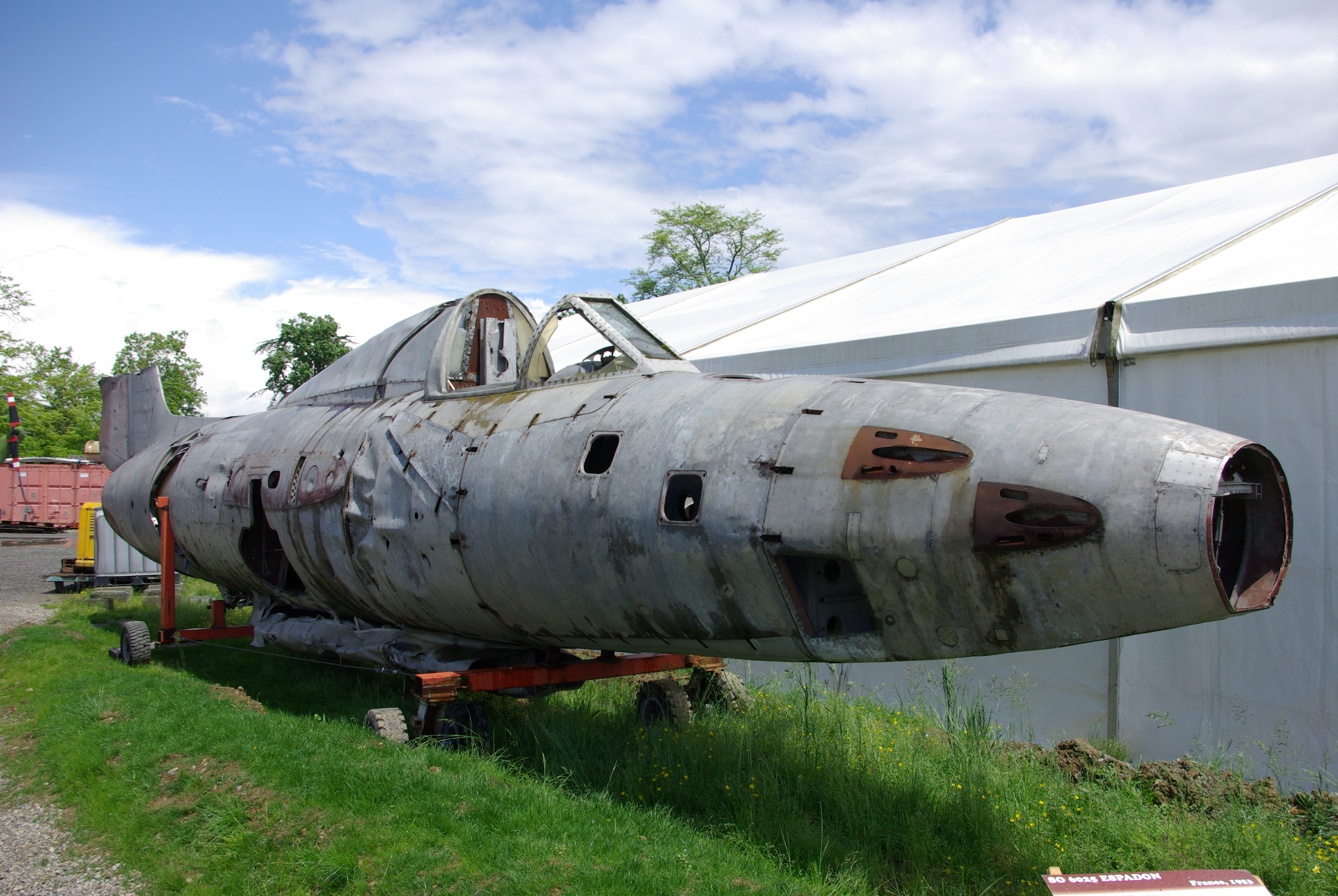 Fuselage of SO.6025 Espadon preserved by Ailes Anciennes Toulouse after it has been recovered from a shooting range.